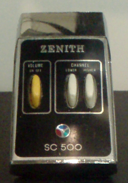 Zenith SC500 Space Command TV remote control unit, first introduced in 1956, this version from 1958, from the CBC Museum, Toronto.